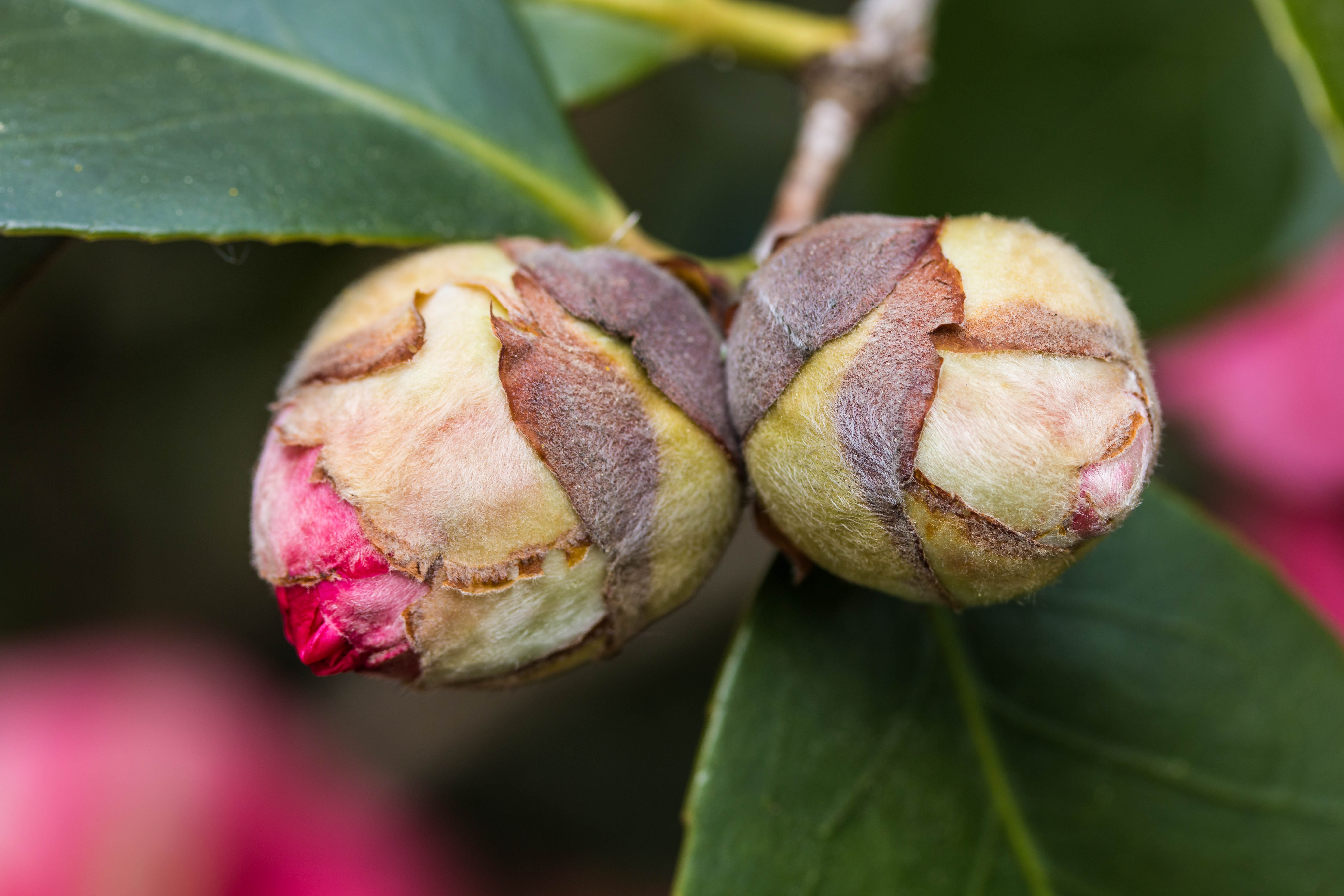 buds of a japanese camellia